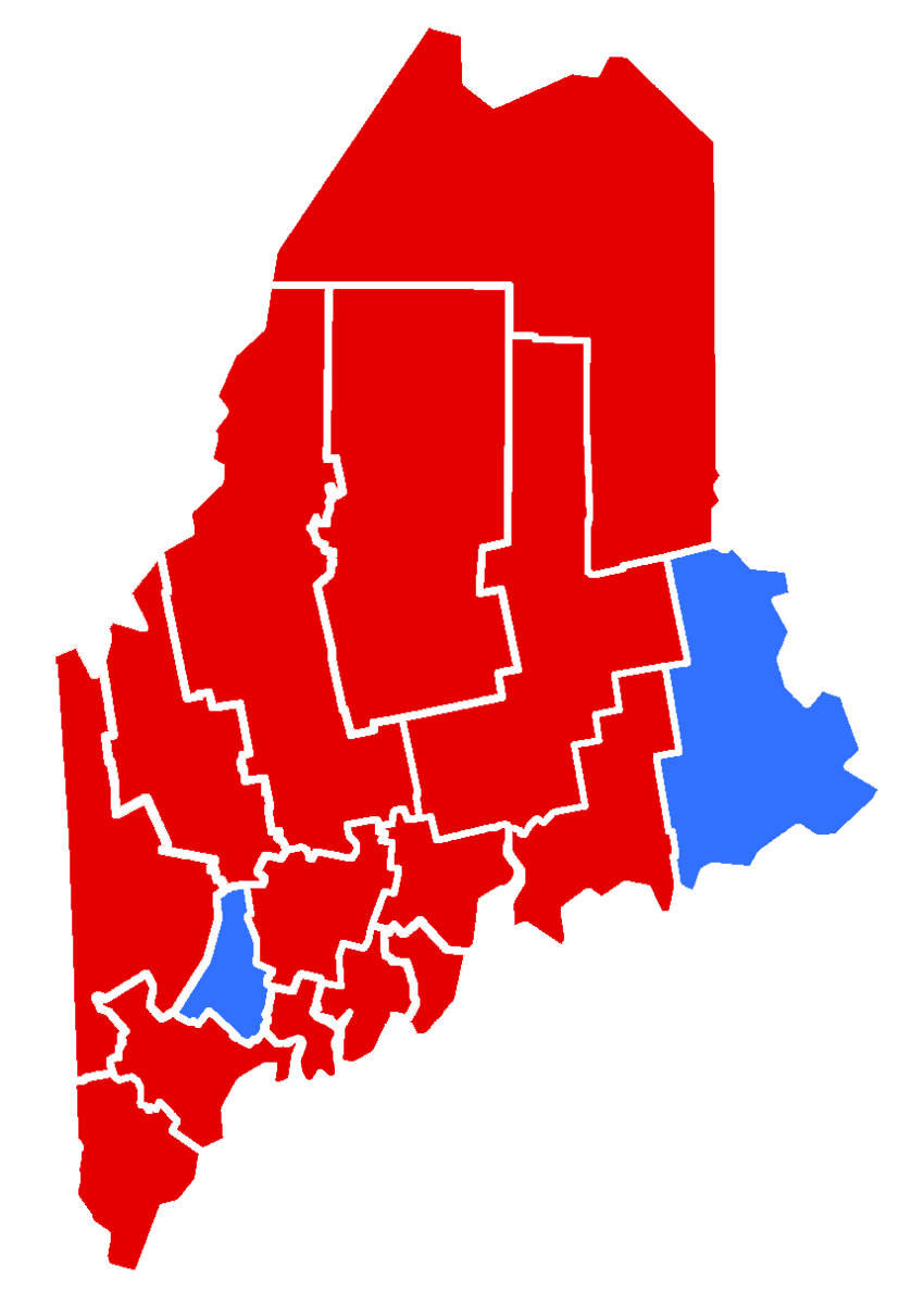 Maine gubernatorial election, 1936, county by county. Made in photoshop.